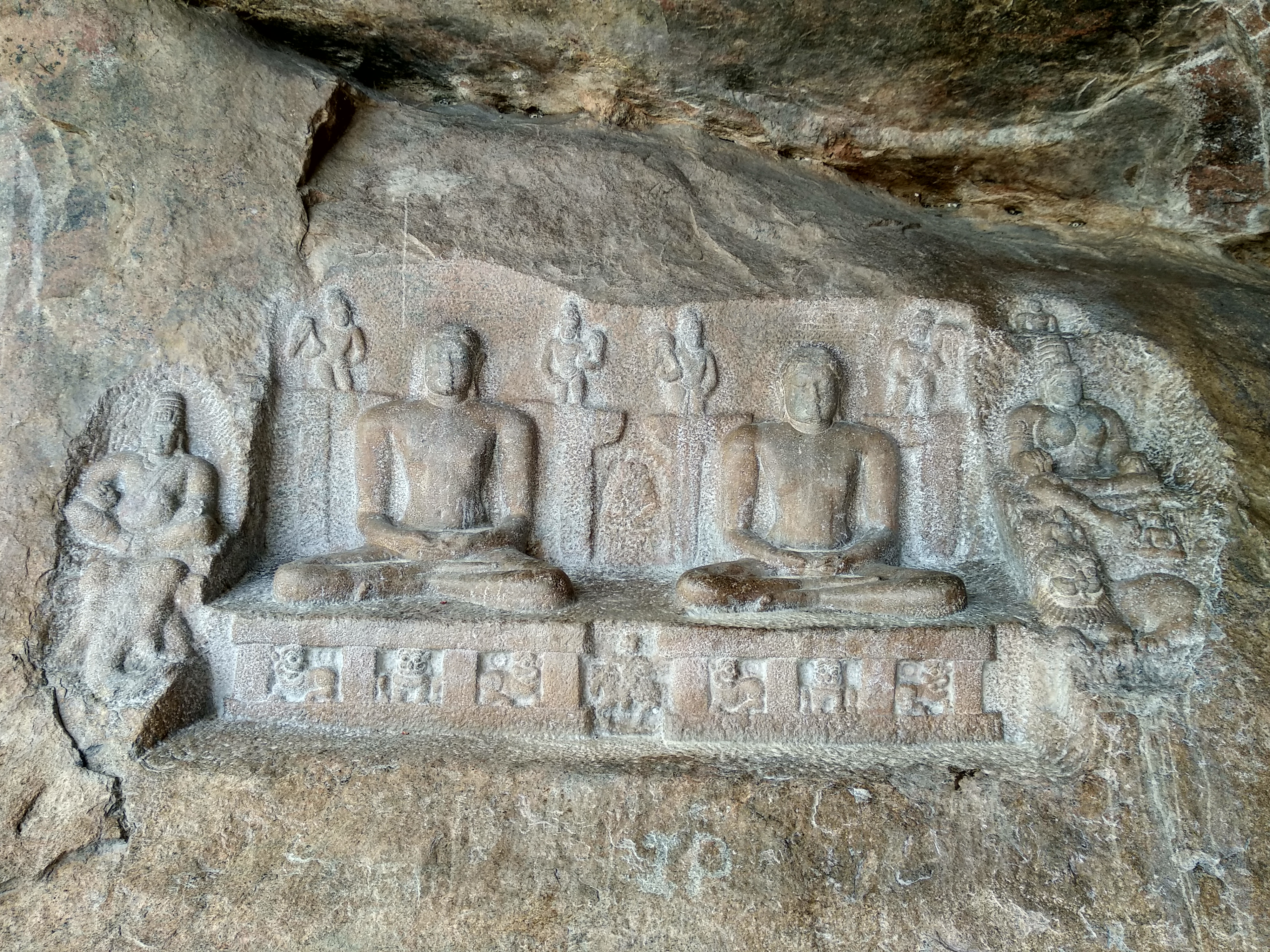 Jain Sculpture And Inscription